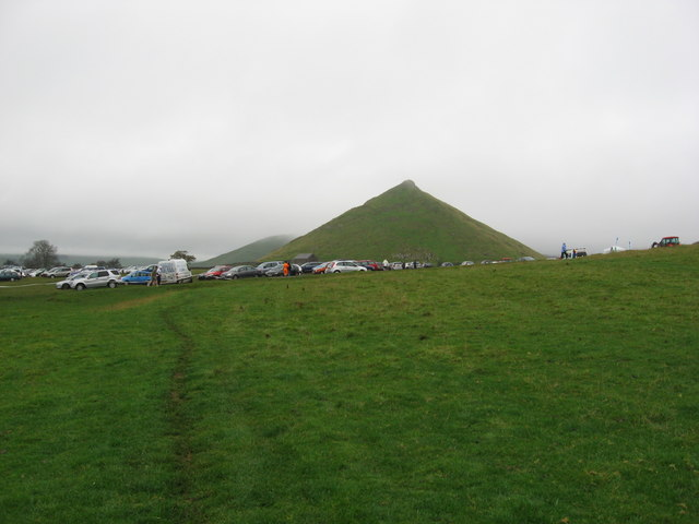 Thorpe Cloud The parked cars are in connection with the 2009 Dovedale Dash - which started and finished at this location.